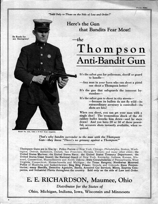 Front Cover of a brochure selling Thompsons in the 1920's